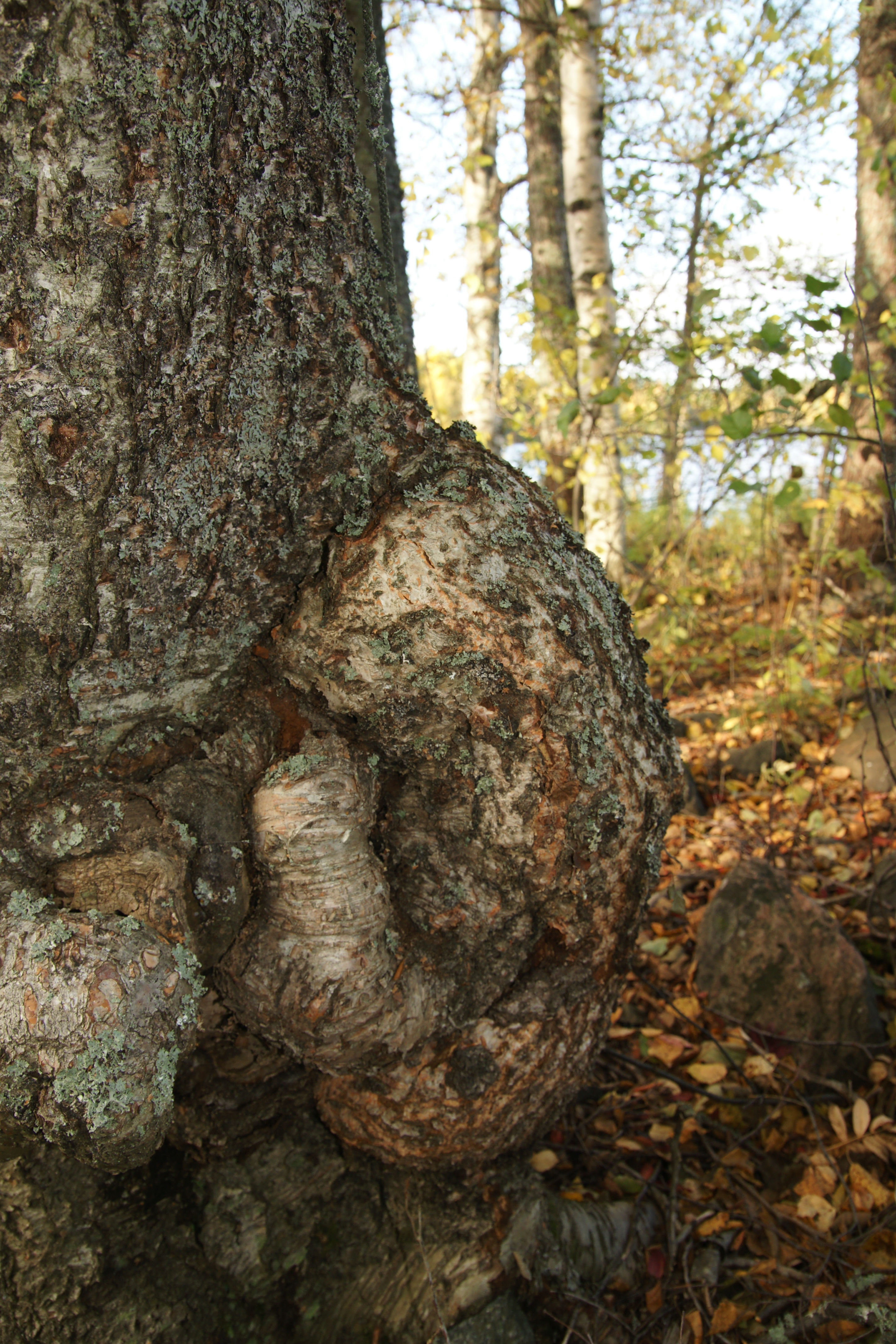 Canker in a Betula tree.